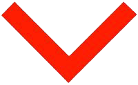 Artpodgotovka